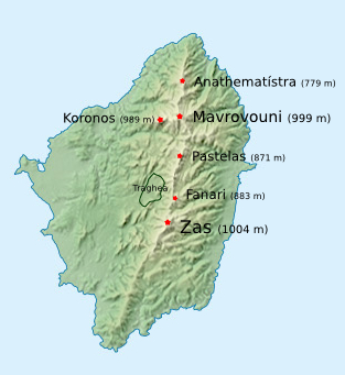 Relief principal de Naxos / Geography of Naxos